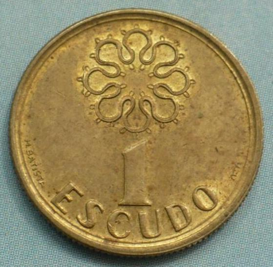 Portugal 1 escudo